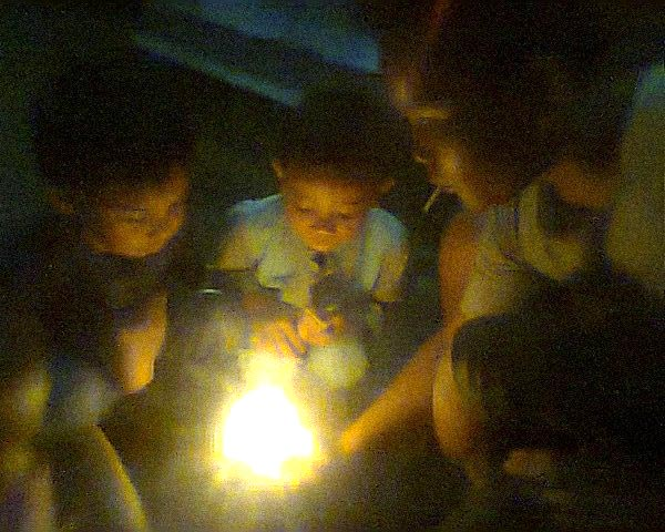 meuncit reungit